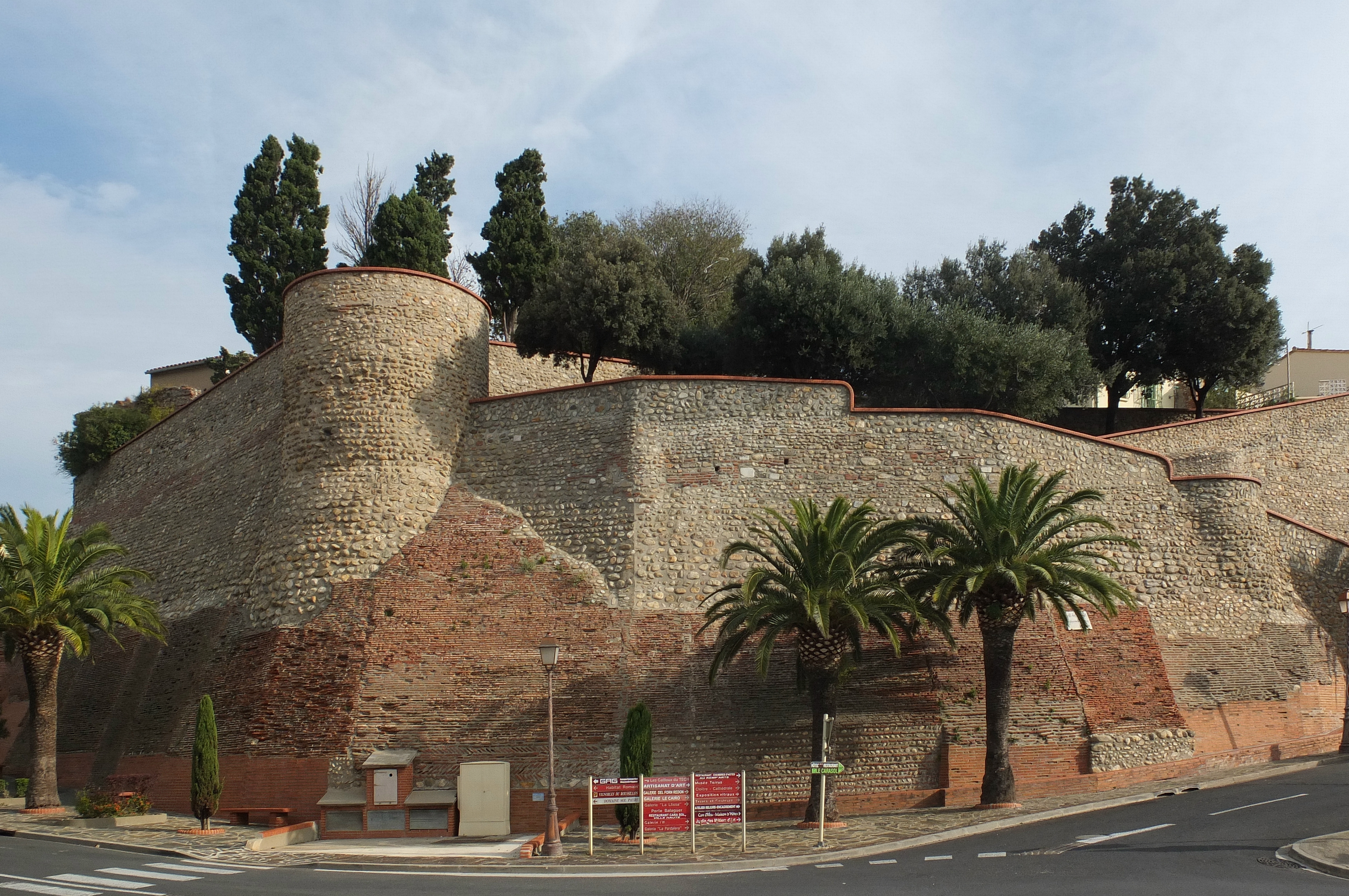 Medieval city wall, Elne France (view SW)